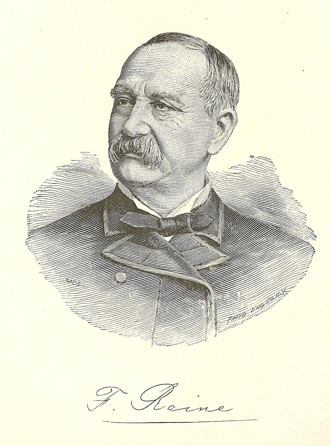 portrait of Friedrich Raine, newspaper editor in Baltimore and US-Consul General in Berlin, Germany, 1884-1888, contemporary engraving